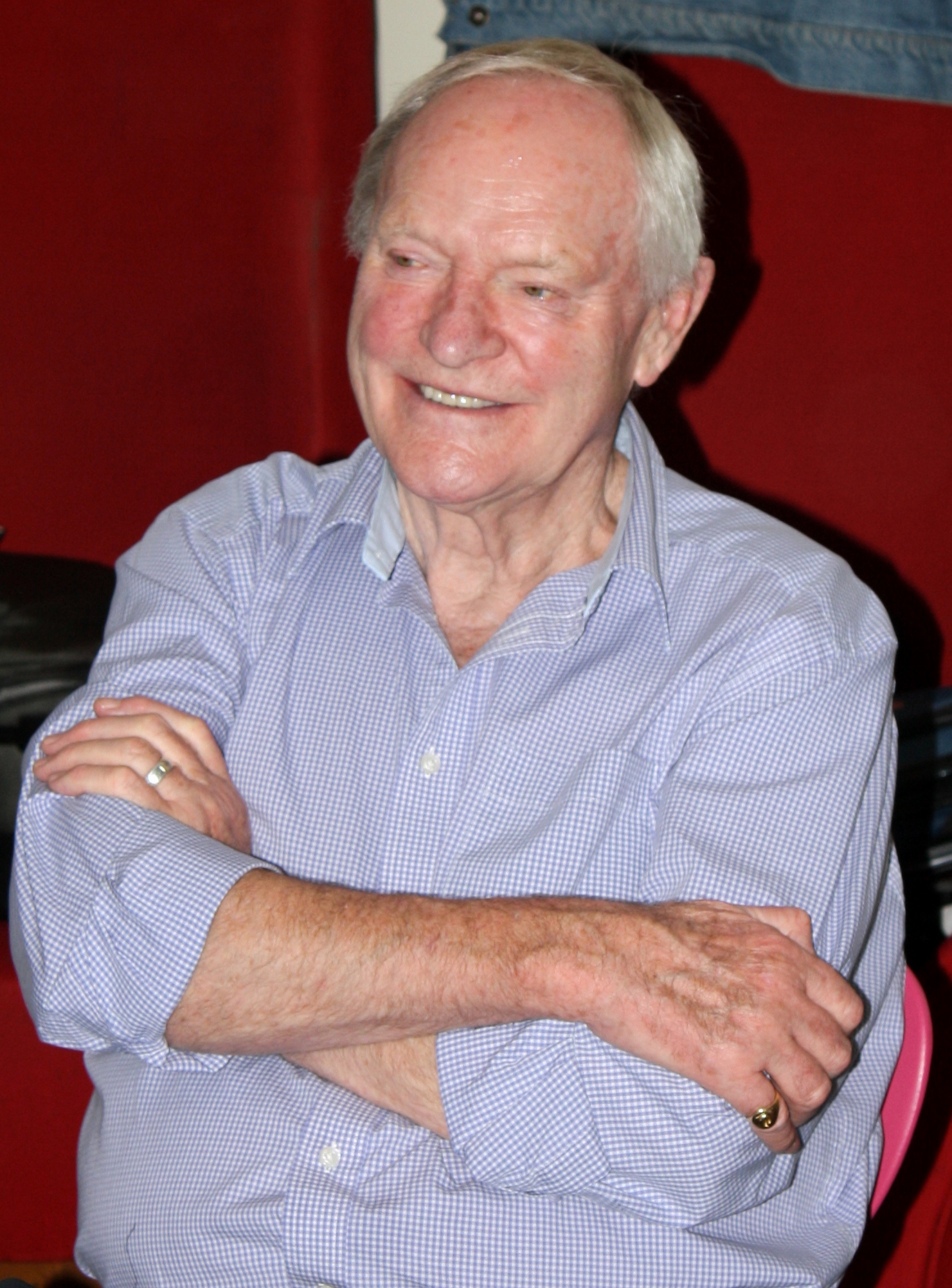 Julian Glover, who portrayed General Maximilian Veers in Star Wars Episode V: The Empire Strikes Back, at Noris Force Con III in Nürnberg, Germany.